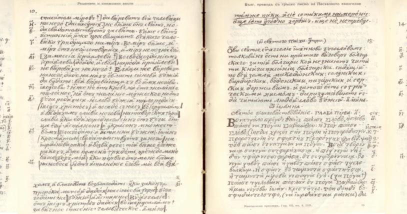 Easter Gospel by Stoyan Chalakov